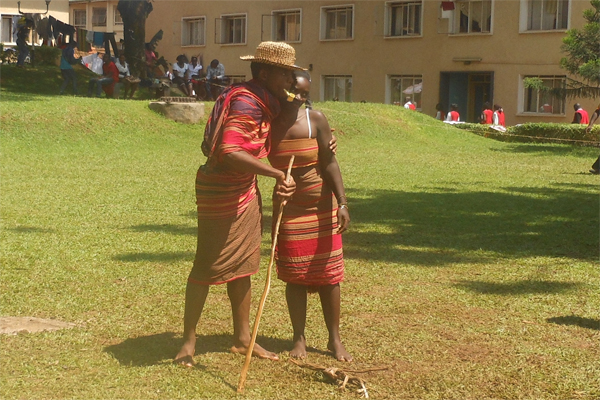 traditional wear known as kikooyi dressed by the Banyankole of western Uganda This is an image of Cultural Fashion or Adornment from Uganda